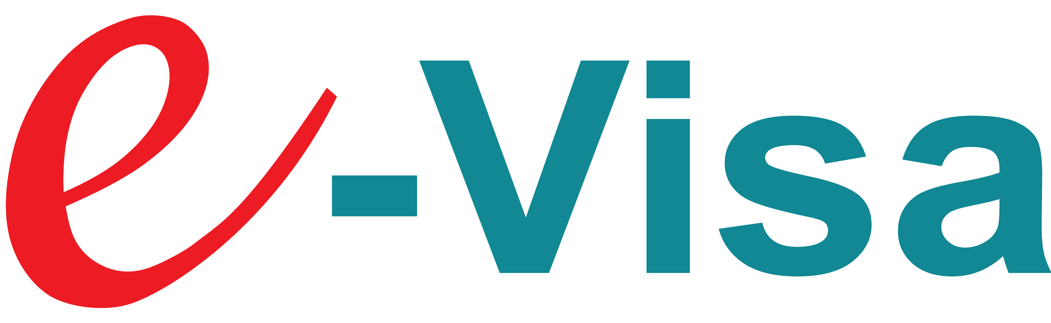 Apply for a tourist visa to Cambodia at anytime from anywhere with internet access. Tourists can get their visa online.